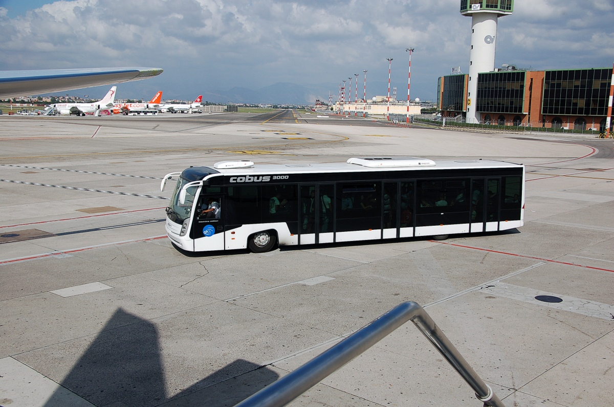 Naples 2010